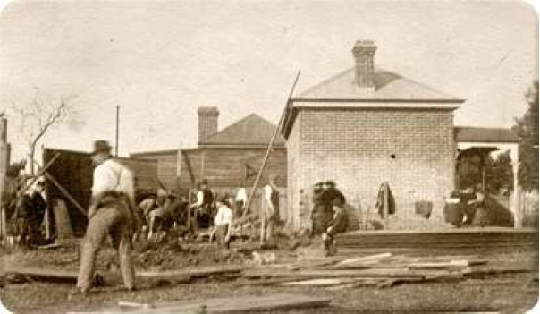 Members of the Ugly Men’s Association building an extension on 210 Carr Street. During WWI and in the 1920s the Ugly Men’s Association built or extended homes of war widows, disabled soldiers and POWs. The owner of this house, William Marshall was a POW in Germany from 1916 and returned to Australia in 1919. See Ugly Men's Association